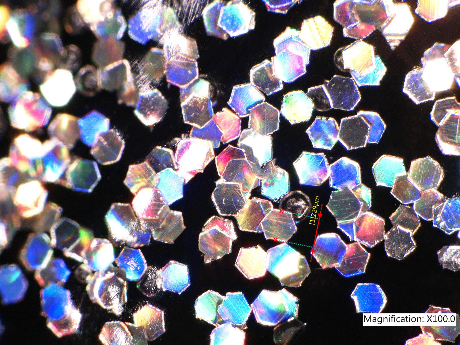 Glitter nail polish under the microscope with measurement of 1 glitter particle, magnification x100